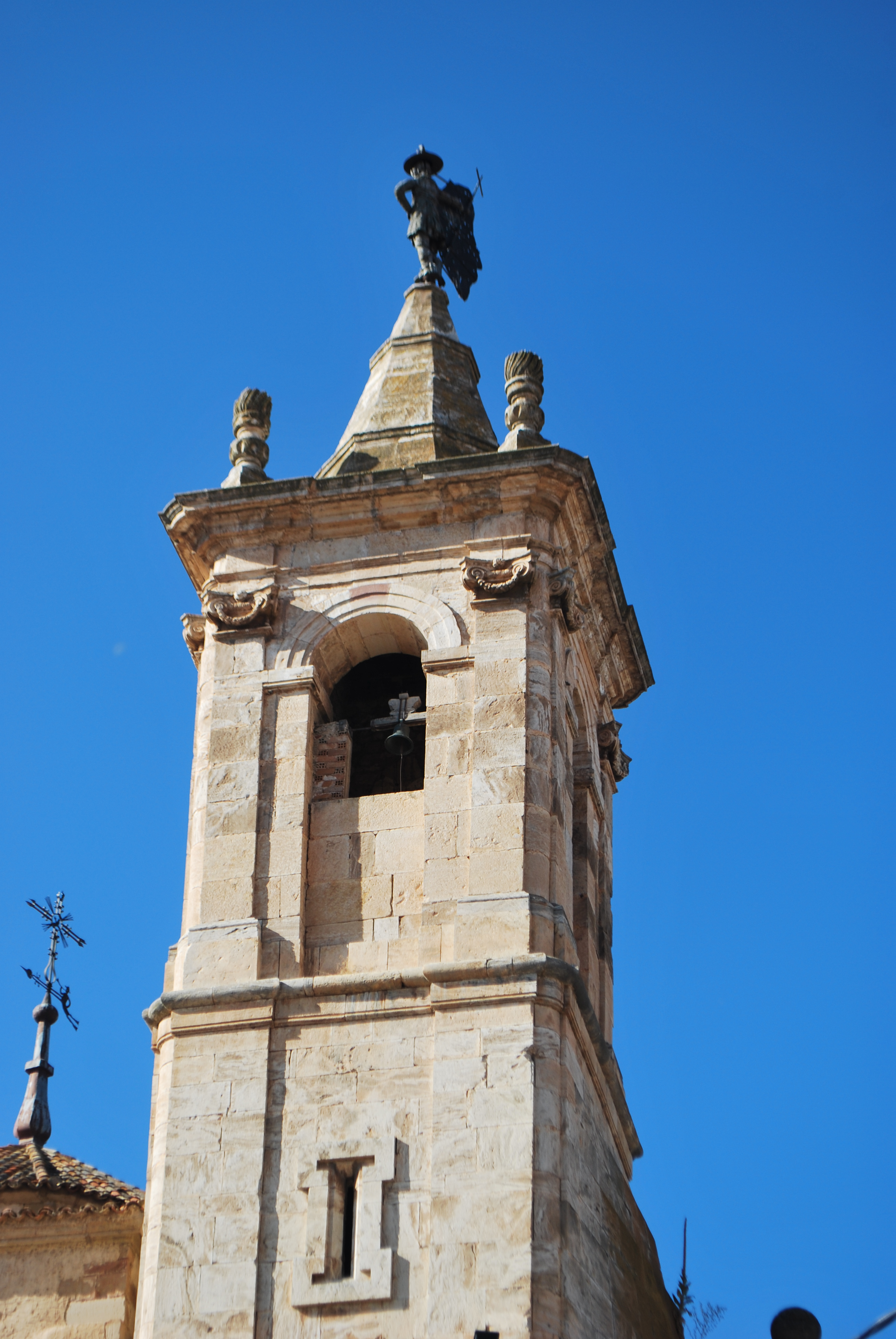 Giraldo on top of St. Francis Church bell Tower in Molina de Aragón, Guadalajara, Spain.